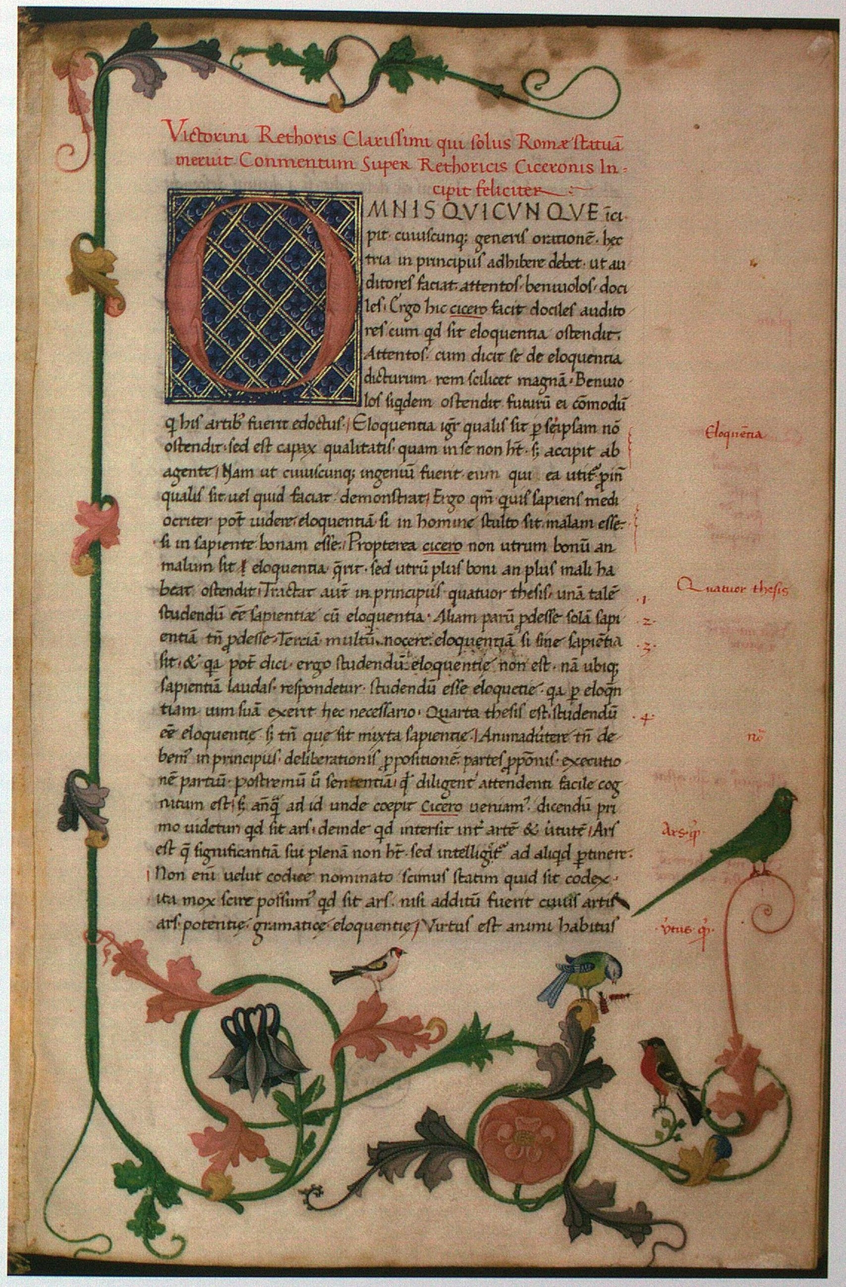 The beginning of the commentary on Cicero’s handbook „De inventione“ in the manuscript Budapest, Országos Széchényi Könyvtár, Cod. Lat. 370, fol. 1r.